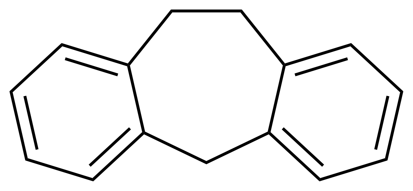 I made this, anyone can use it Comments High-resolution black/white .PNG made with ChemDraw — see WikiProject Chemistry - structure drawing for detailed instructions. Please drop me a note if you need the source file.